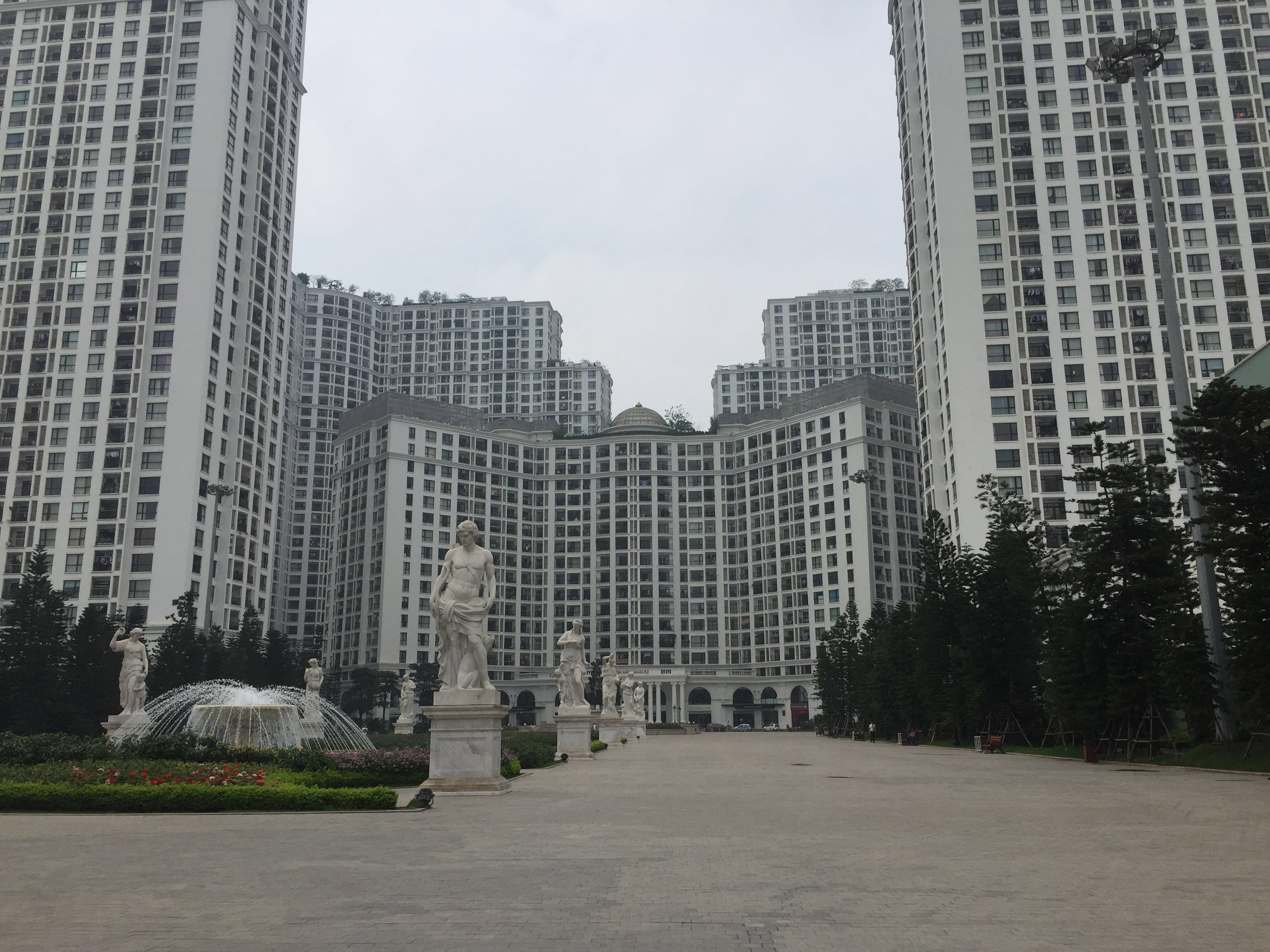 VinGroup Times City